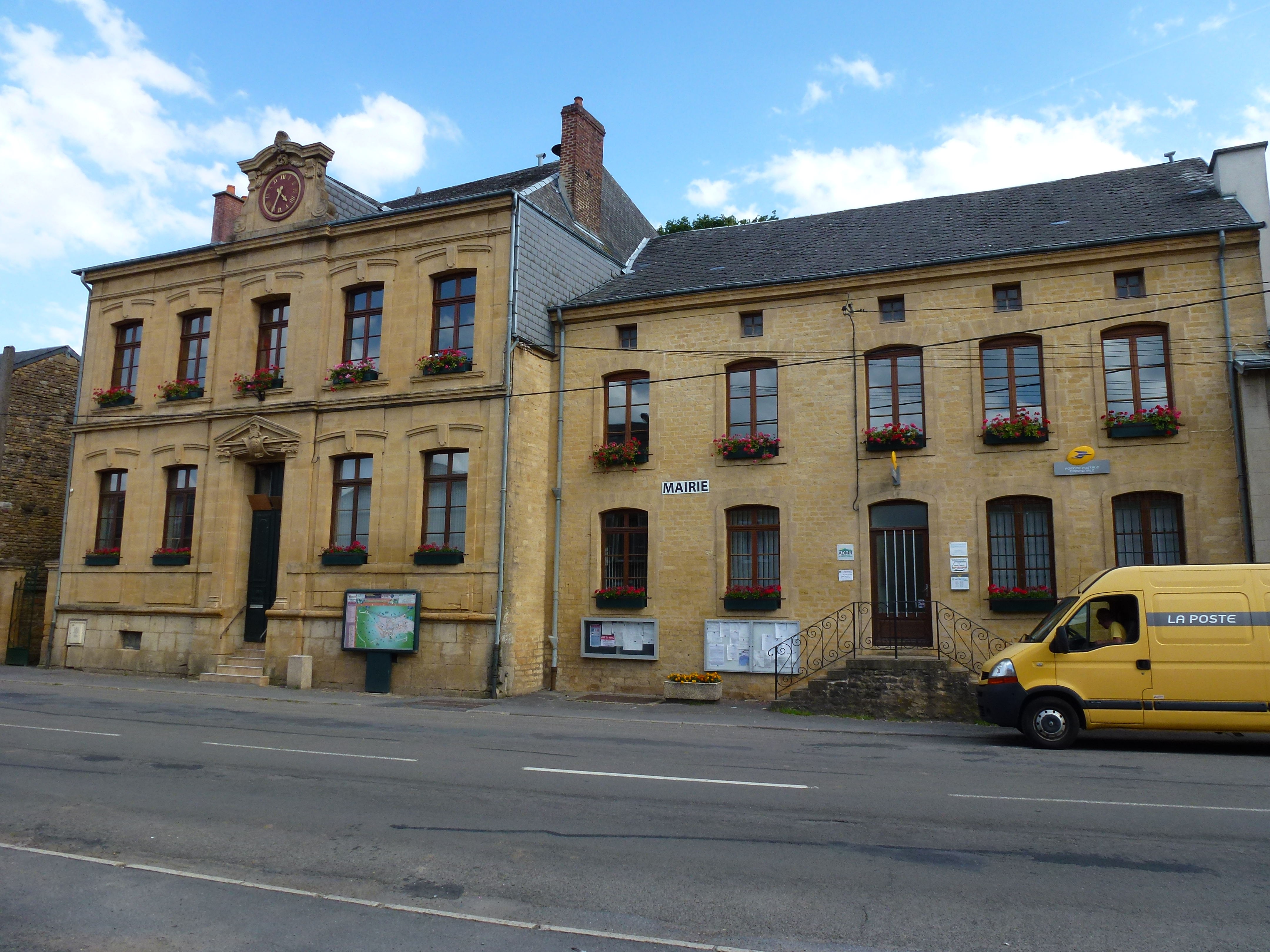 Boulzicourt (Ardennes) Mairie et Poste